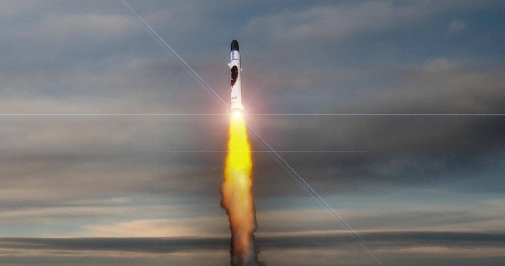 Rendered using Autodesk Maya and Adobe Photoshop. Background image taken by myself.